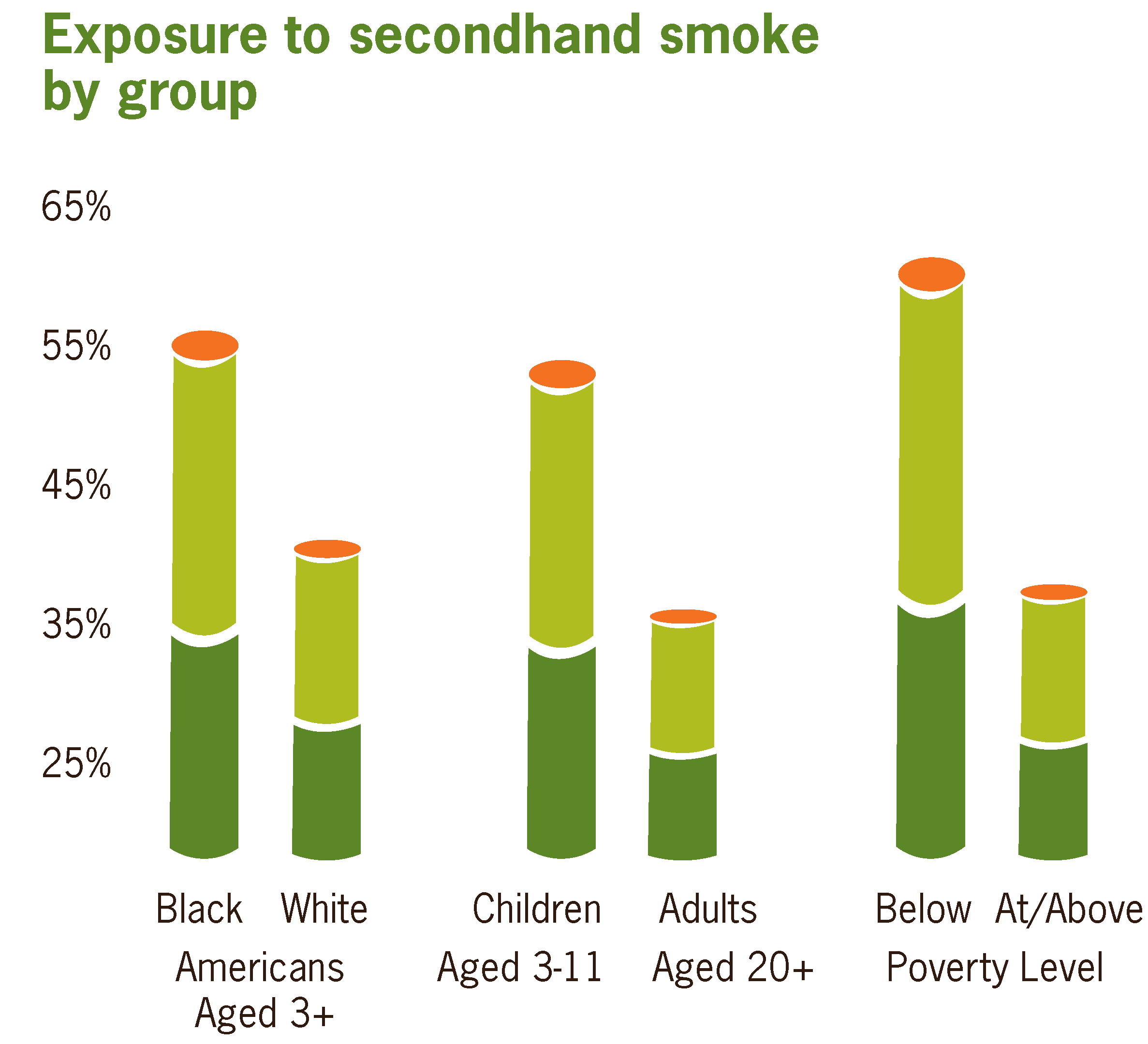 Exposure to secondhand smoke by age, race, and poverty level US